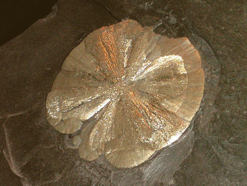 Pyrite disc Original description: From the Asarco Mining Company, on display at the Desert Casino south of Tucson, Arizona. This gold "flower" was about 4" in diameter! The entire specimen is about 30" tall and 2' wide. There are about 4 of these pyrite beauties on top of slate (at least I think it is slate). I was happy to get permission to photograph them inside the casino tonight.